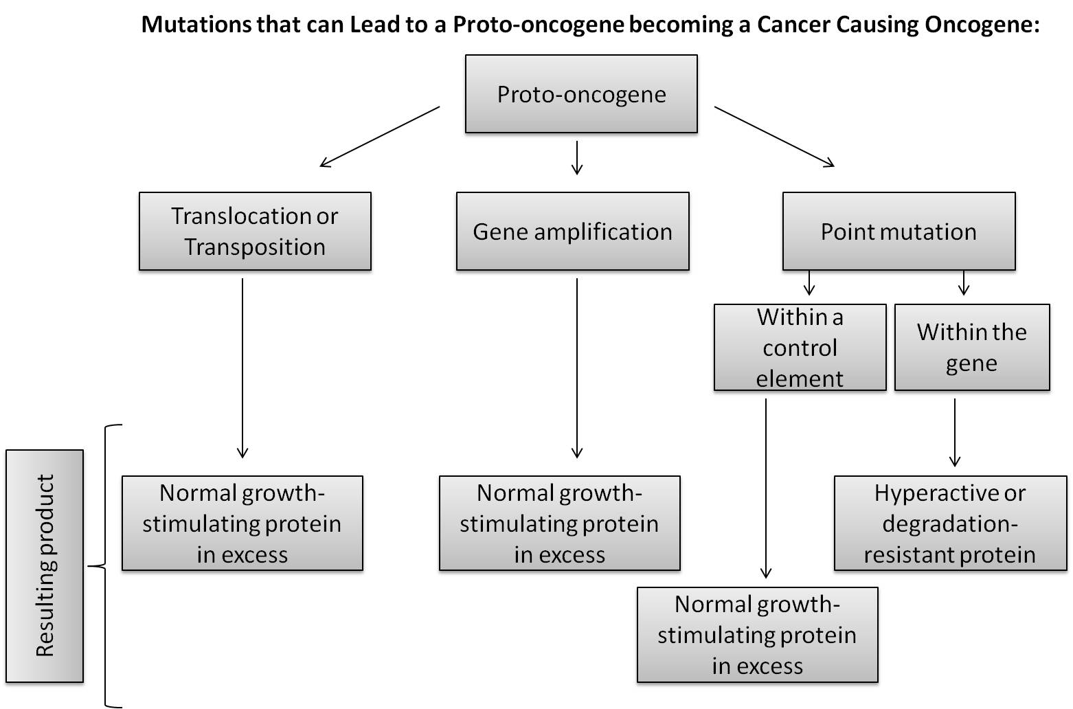 It is a image representing possible mutations that can convert proto-oncogenes to active cancerous oncogenes.